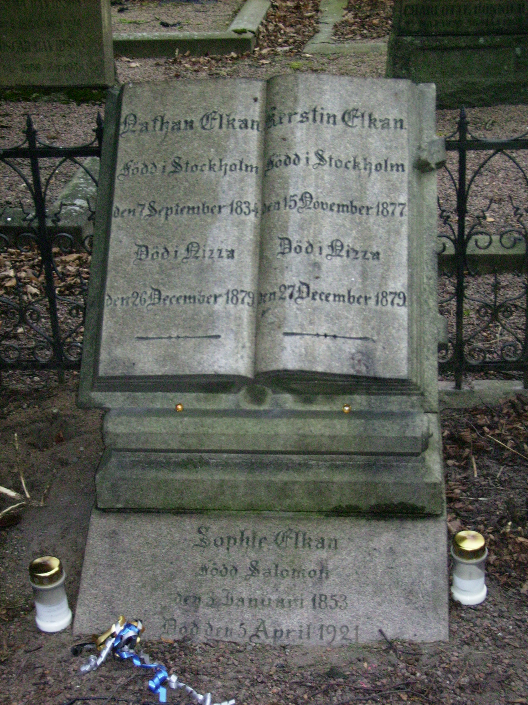 Picture of writer Sophie Elkan's grave in Gothenburg.